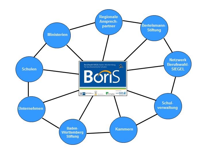 overview